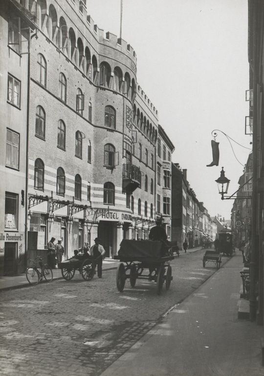 Studiestræde with Grundtvigs Hus to the left in Copenhagen, Denmark